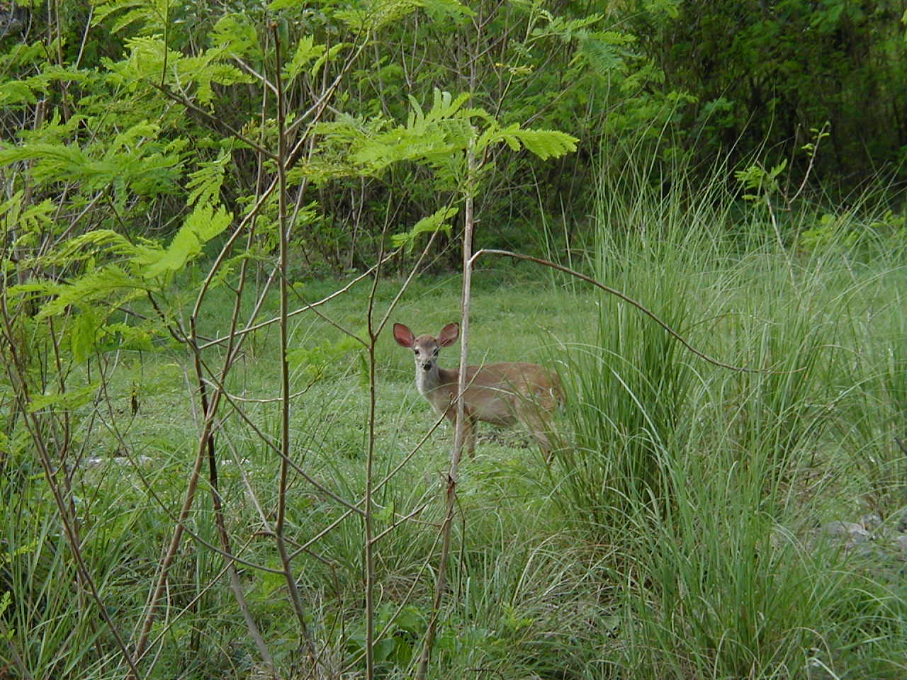 Yucatan Brown Brocket